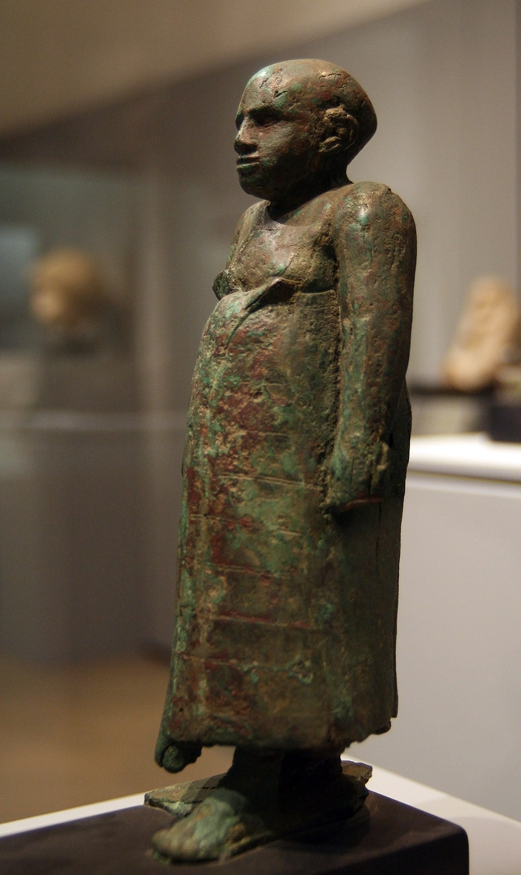 Statue of a high ranking public servant from the Middle Kingdom of Ancient Egypt, 12th Dynasty, ca. 1800 BC (Staatliche Sammlung für Ägyptische Kunst in Munich).